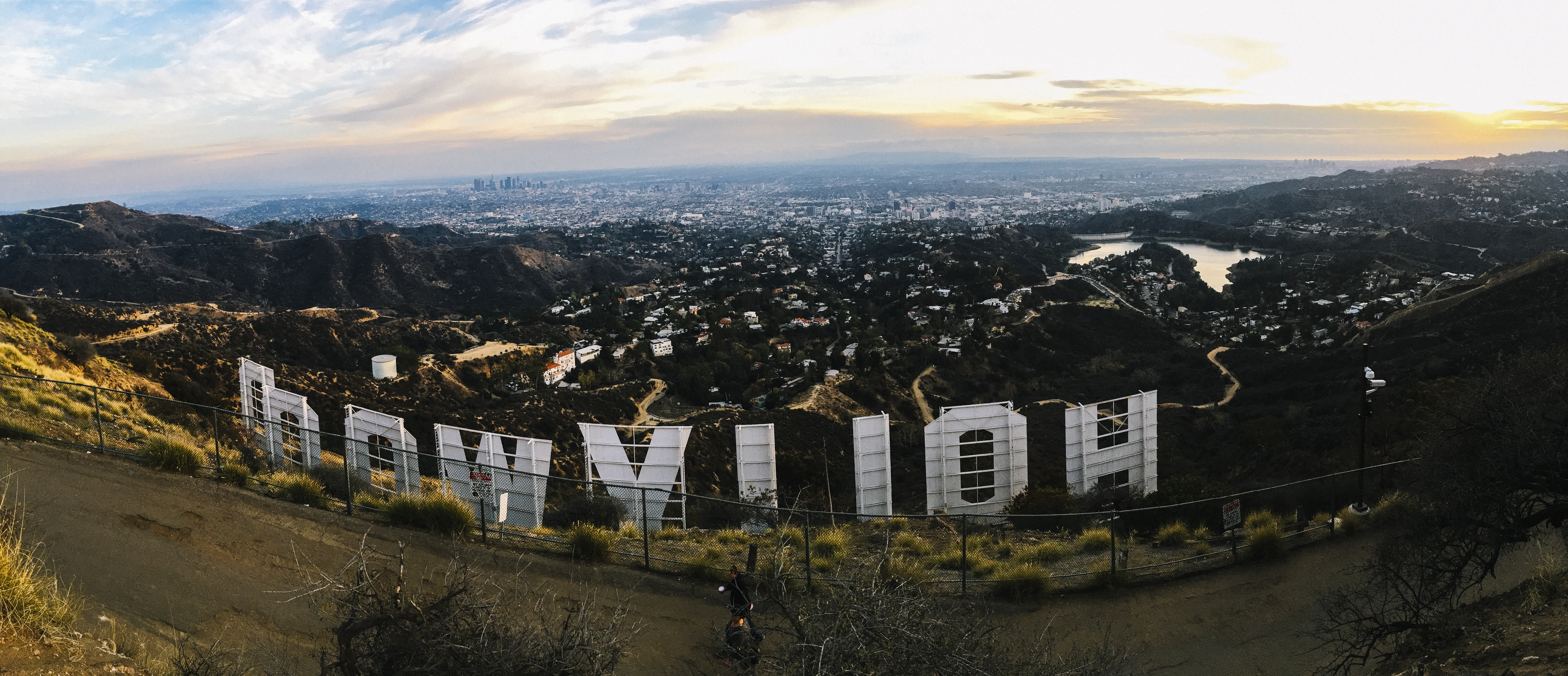 This appears to be looking at the Hollywood sign in LA, California from the opposite side and looking down at the houses and buildings below.